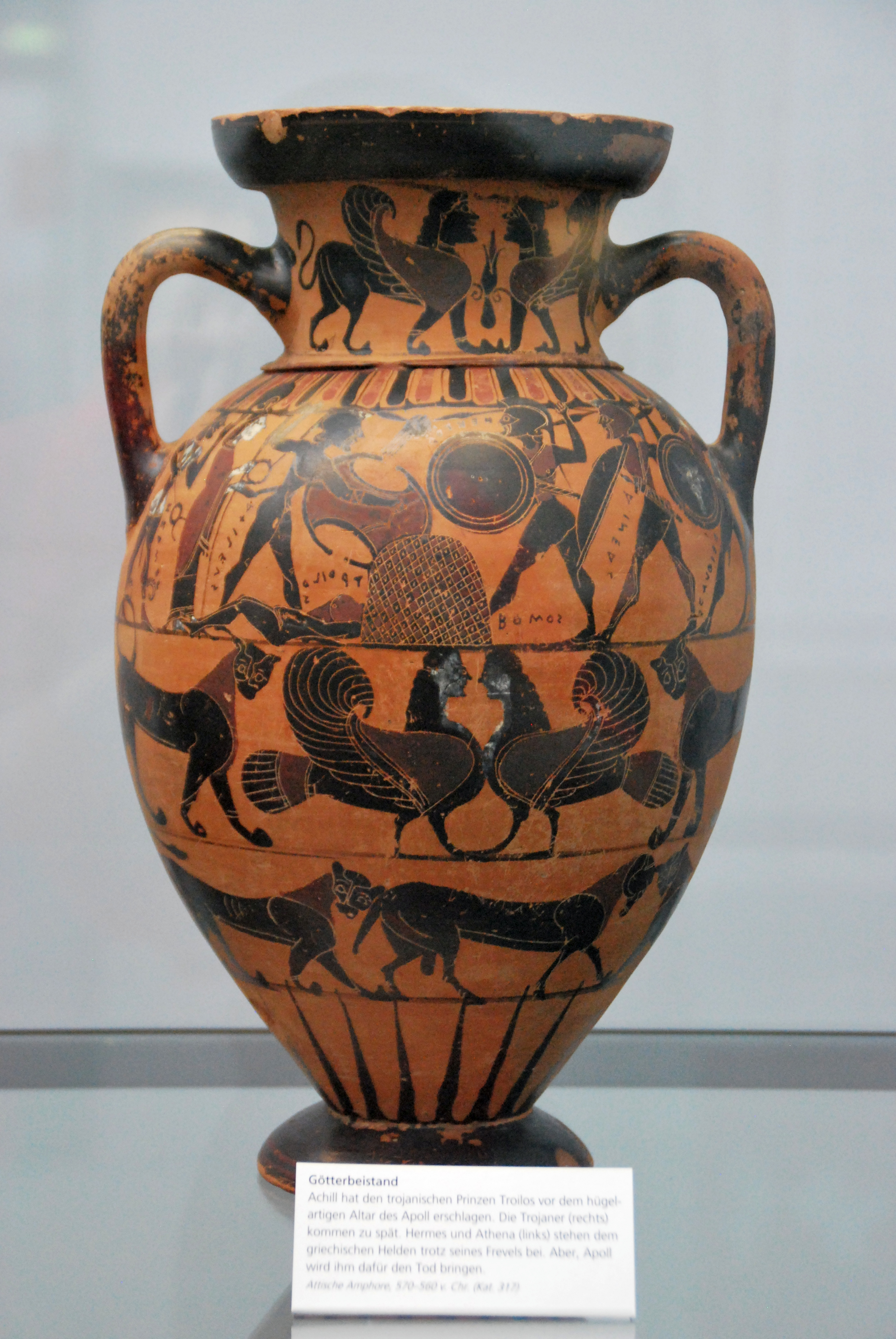 Achilles and Hector fight over the dead Troilos at the altar of Apollo. Black-figured Tyrrhenian amphoras of the Timiades painter. Origin Attica, place of discovery Vulci. Between 575 and 550 B.C. Munich 1426. Staatliche Antikensammlungen Munich